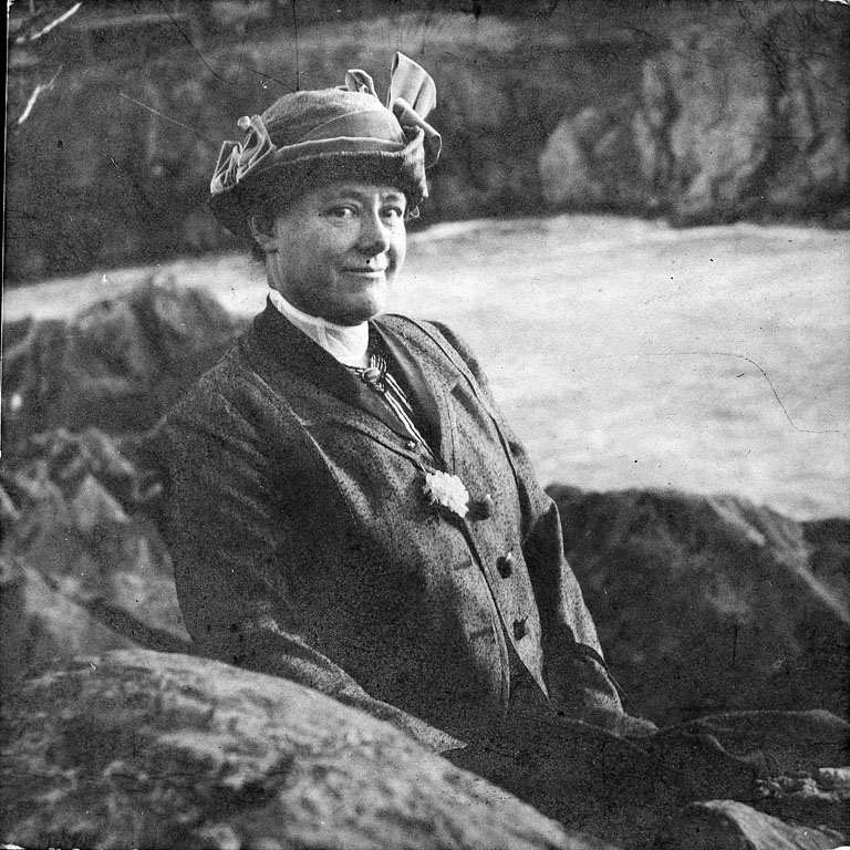 Mary Vaux Walcott (1860–1940) at Great Falls on the Potomac River, on April 30, 1914. She was a wildflower artist, and third wife of Charles D. Walcott (1850–1927), the fourth Secretary of the Smithsonian from 1907 to 1927. Walcott is sitting on some rocks facing the camera with Great Falls of the Potomac River behind her.